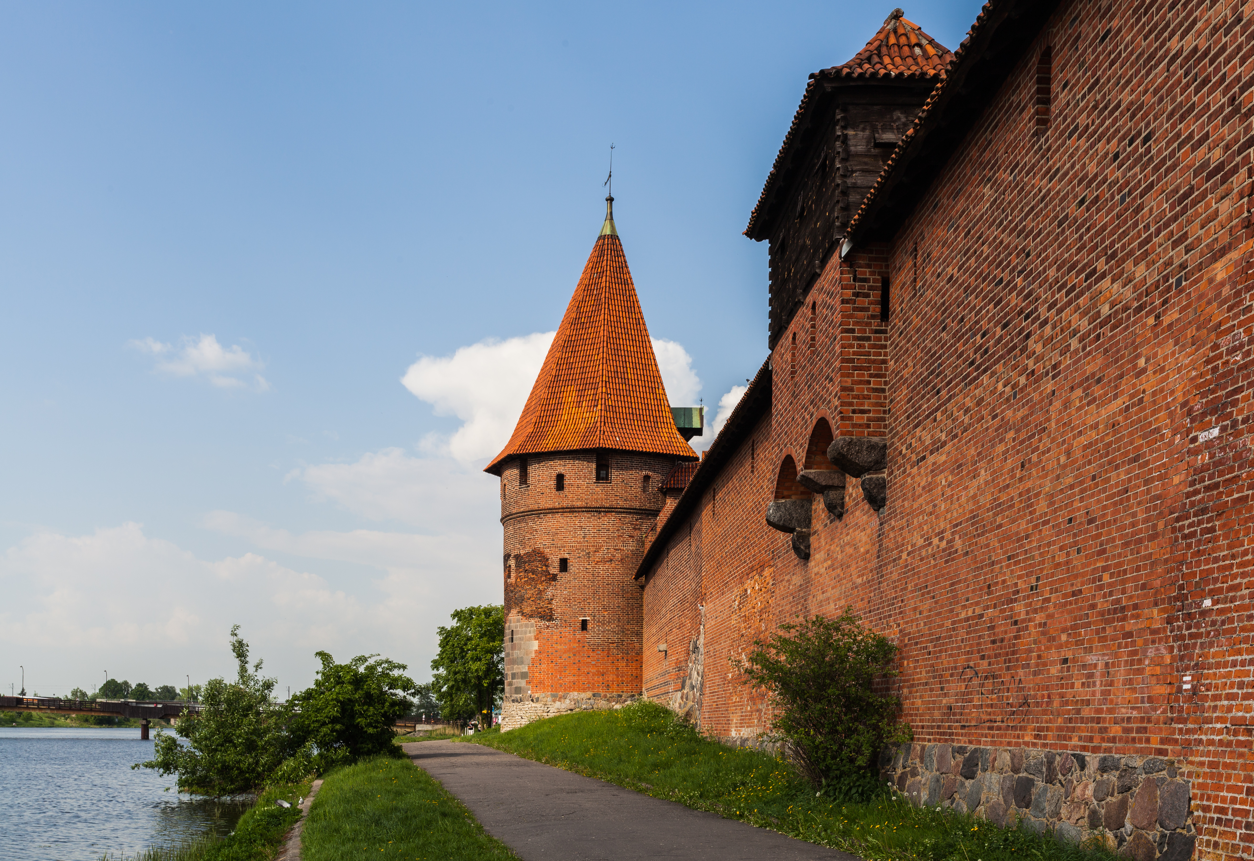 Malbork Castle, Poland